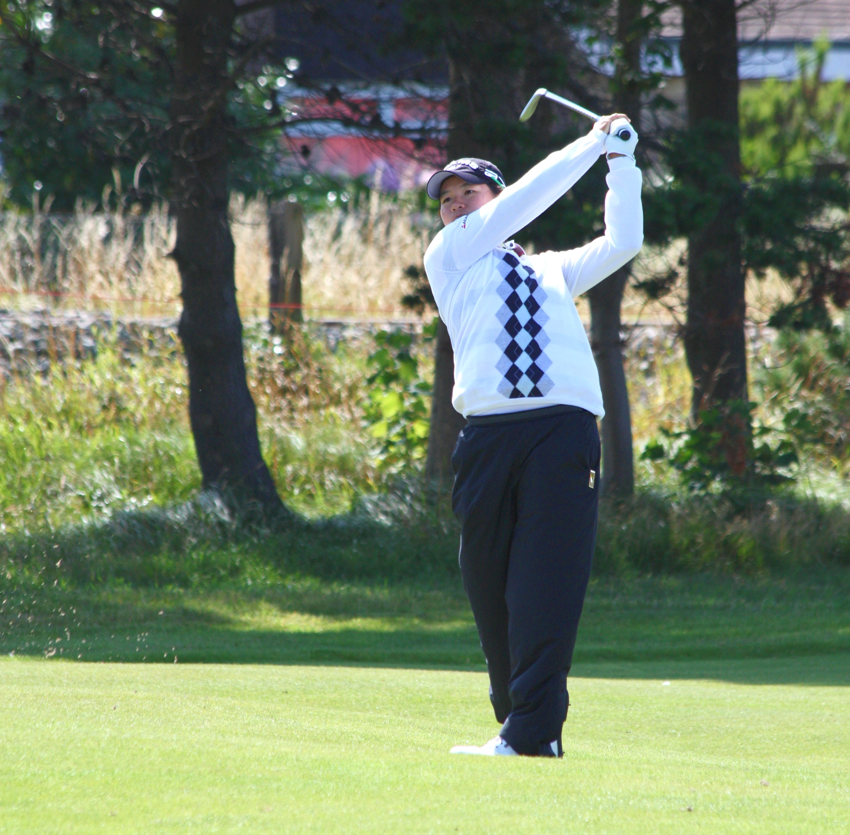 LYTHAM ST ANNES, UNITED KINGDOM - JULY 27: Yani Tseng of Taiwan hits approach shot to the 2nd green during first practice round before 2009 Ricoh Women's British Open held at Royal Lytham & St Annes on July 27, 2009 in Lytham St Annes, England. (Photo by Wojciech Migda)